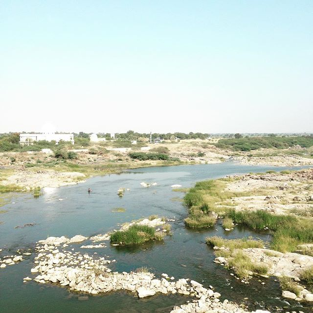 Bhima river at Sannathi in Yadgir with several migrant waterfowl, cormorants, herons and storks